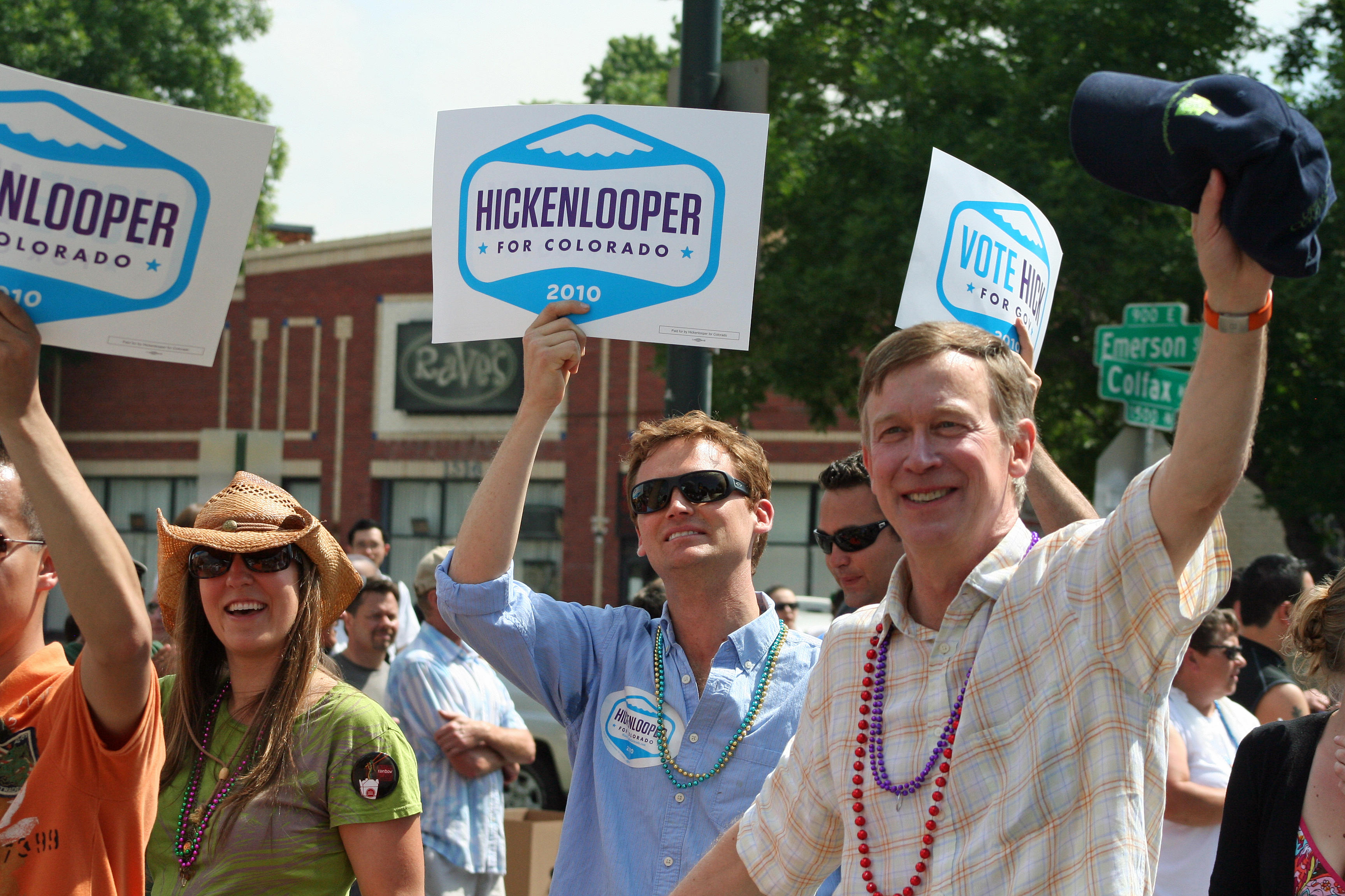 The mayor of Denver is the Democratic candidate for Governor of Colorado.